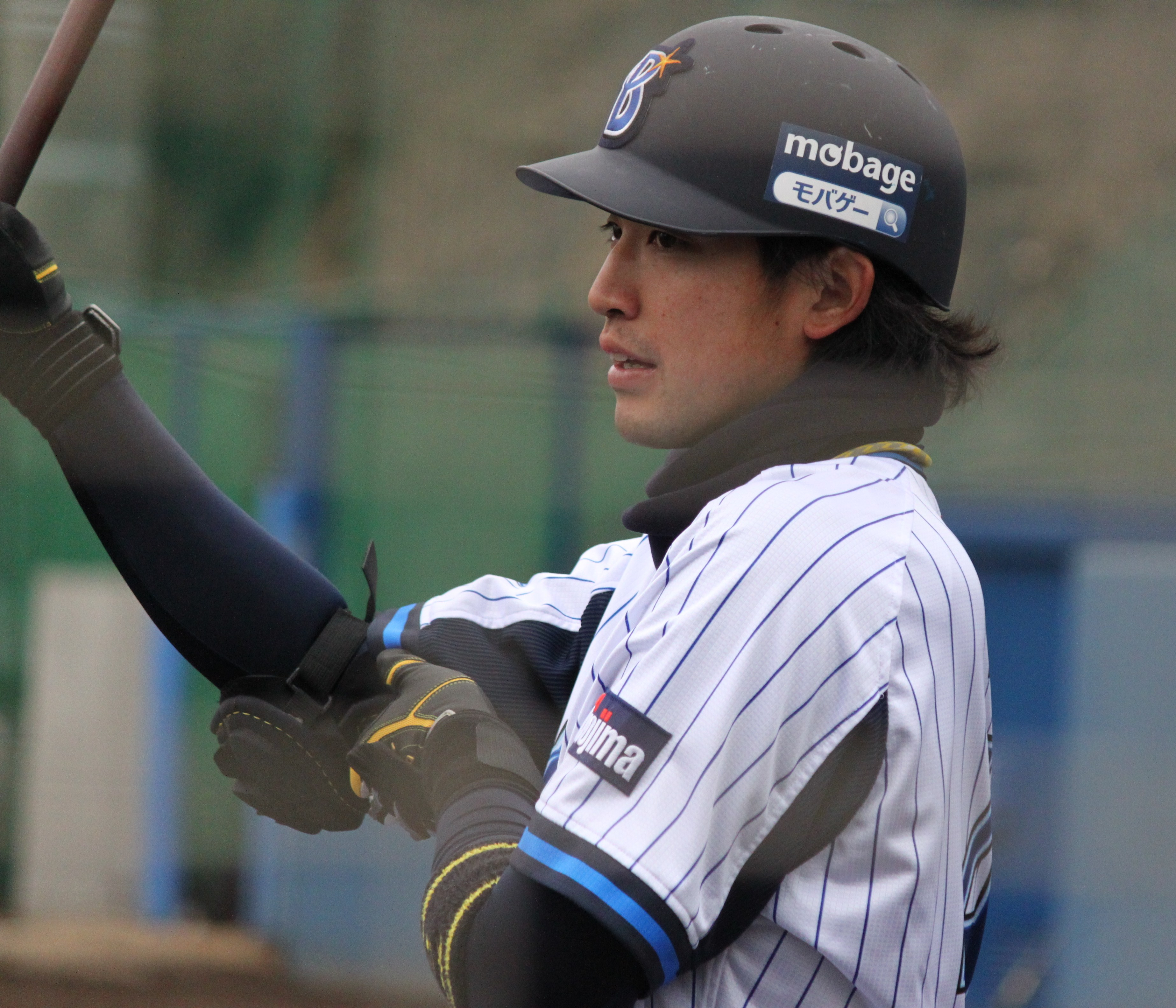 Atsushi Kita, outfielder of the Yokohama DeNA BayStars, at Yokohama DeNA BayStars Baseball Integrated training field.